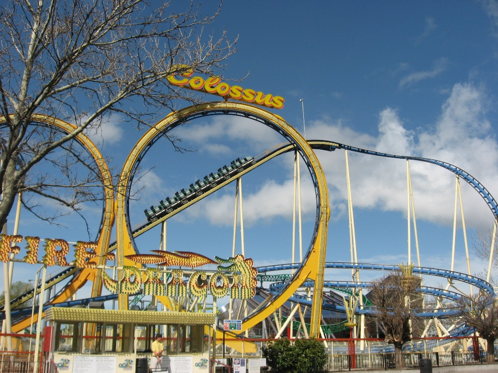 Colossus the Fire Dragon at Lagoon Utah